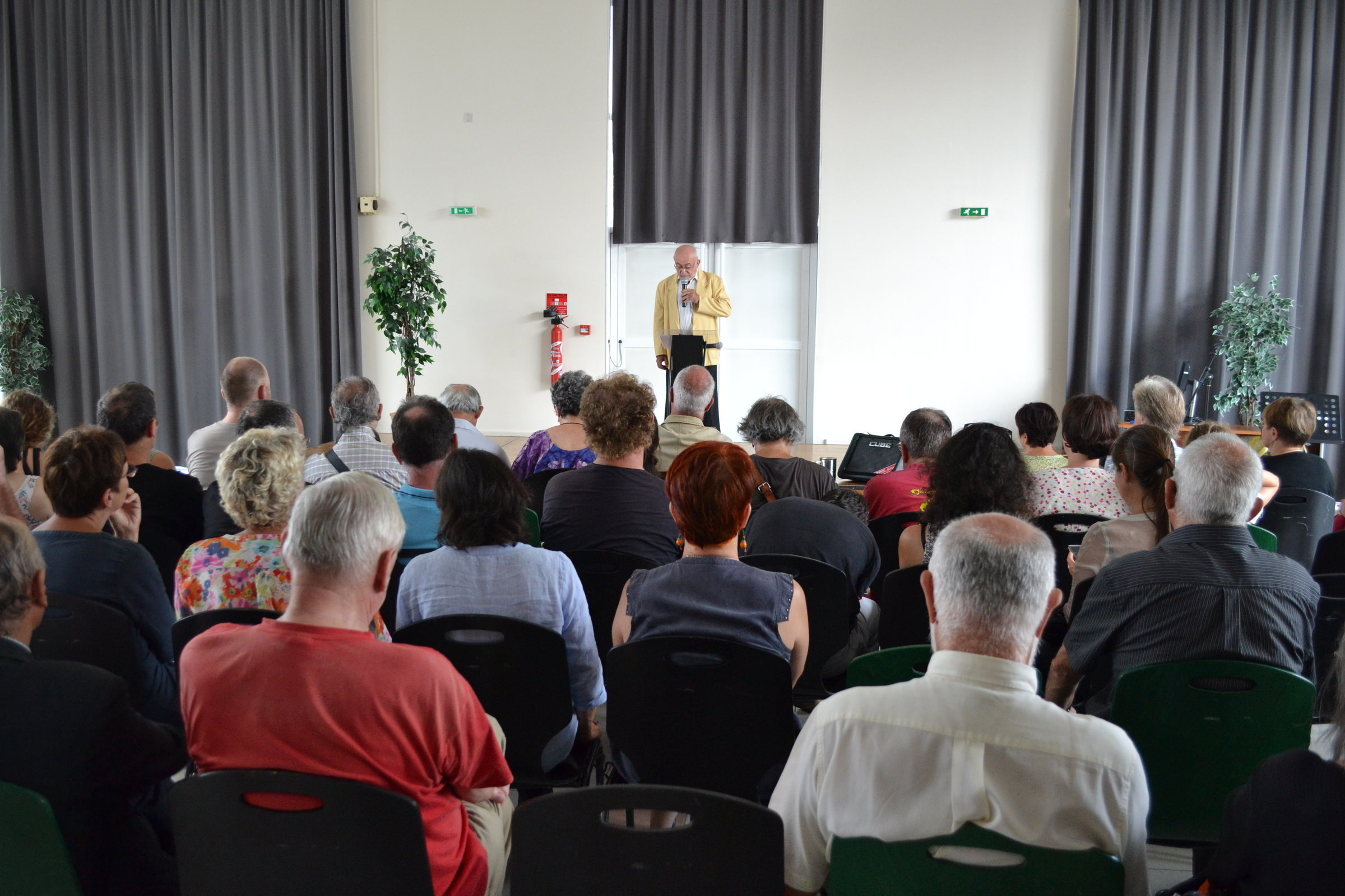 Official opening of Summer occitan school in Villeneuve-sur-Lot in 2018.